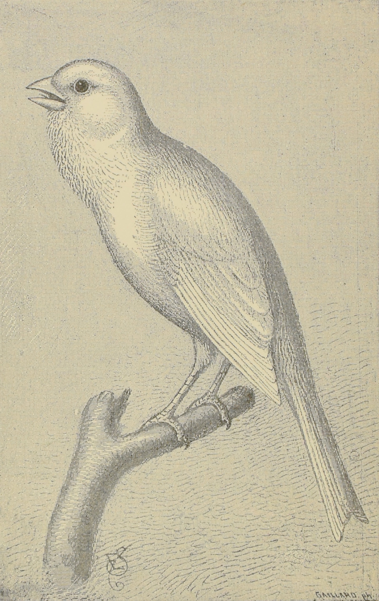 The Hartz Canary-Bird (or German Whisthler)